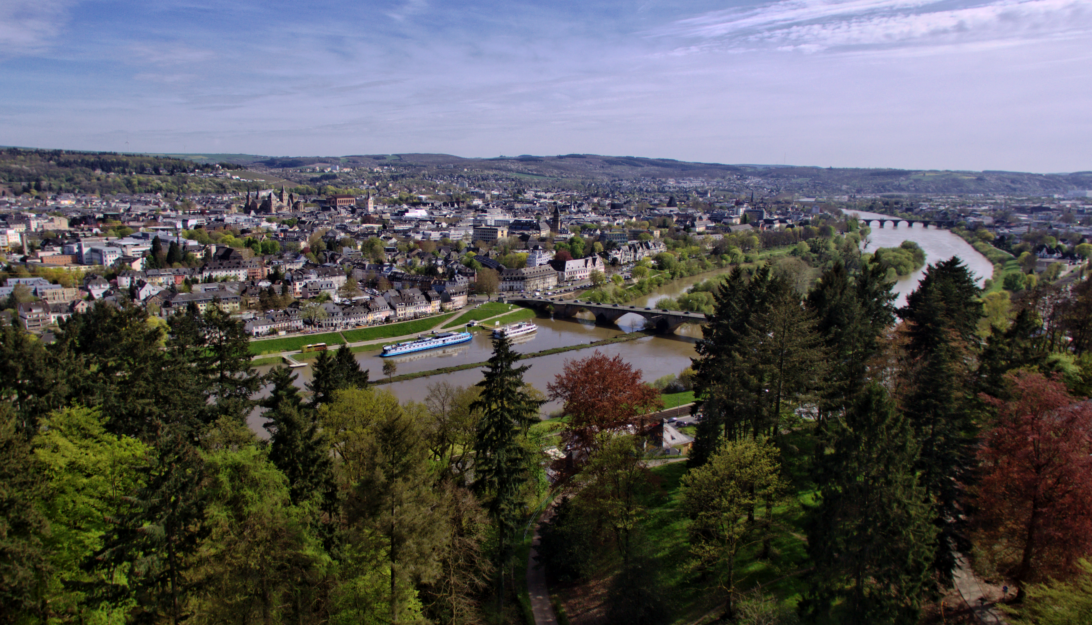 Trier (Germany) Moselle River,Emperor Wilhelm brindge (left), roman bridge (right) and city center from the former Weisshaus-restaurant